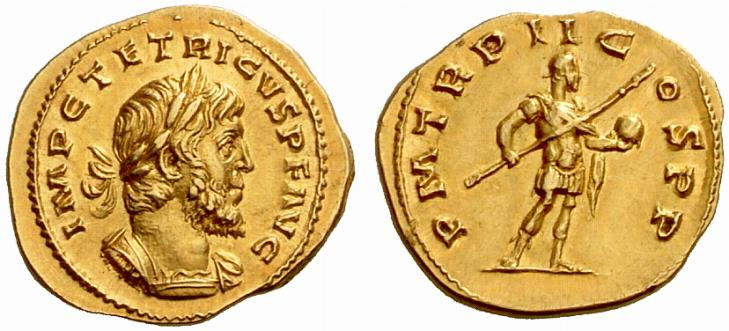 Tetricus I, 271-274, Aureus, Cologne or Treveri 272, AV 4.79 g. IMP C TETRICVS P F AVG Laureate and cuirassed bust r., with drapery on far shoulder. Rev. P M TR P II C – OS P P Tetricus standing r., in military dress, holding globe and spear. Calicó 3887 (this coin). C 128 var. Schulte 29. RIC 5.